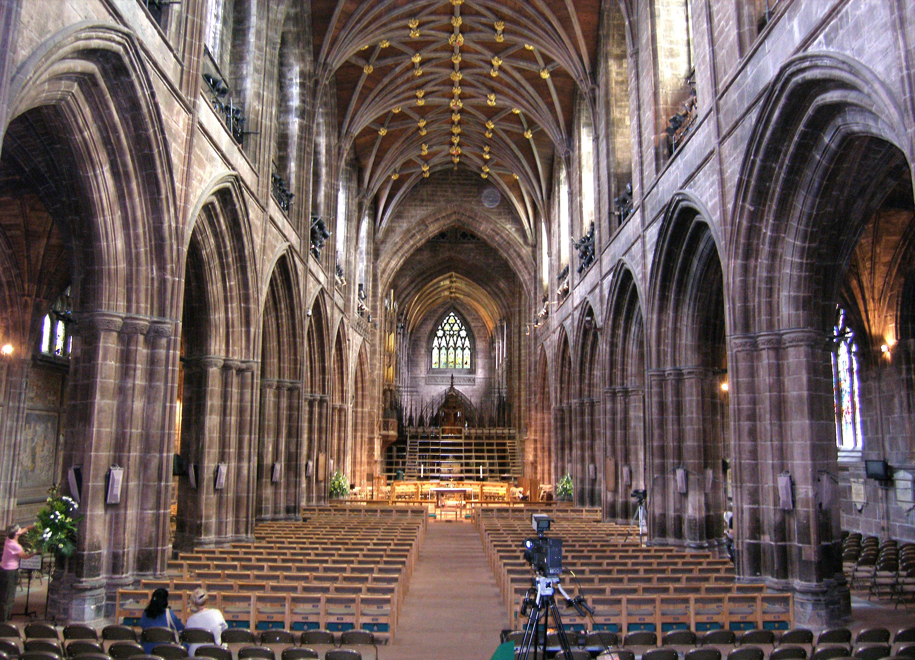 England, Chester Cathedral.